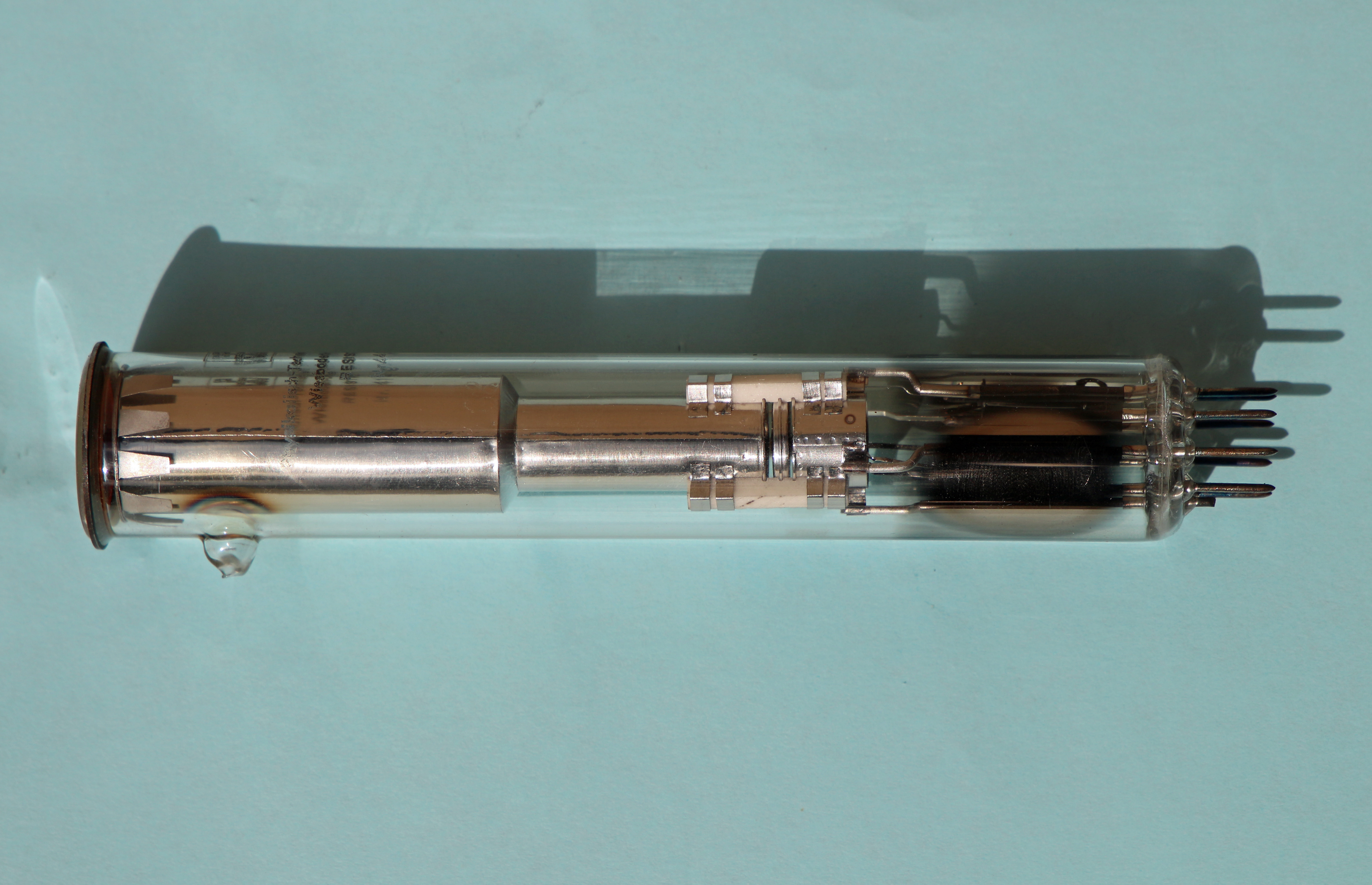 Resistron (video camera tube of vidicon type) No 4149 from Physikalisch-Technische Werkstätten Wiesbaden-Dotzheim (later Heimann)